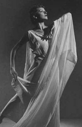 Mercedes Quintana- bailarina argentina